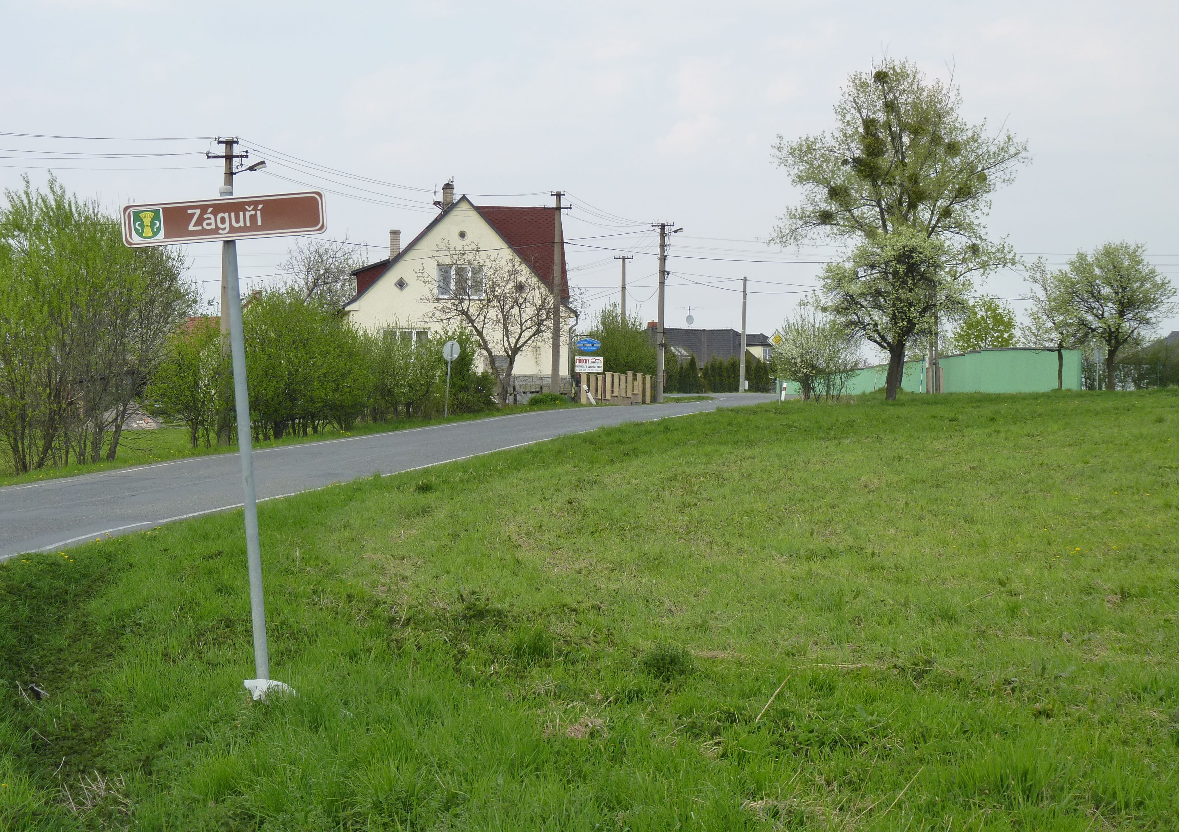 Záguří, Horní Bludovice, Karviná District, Moravian-Silesian Region, Czech Republic